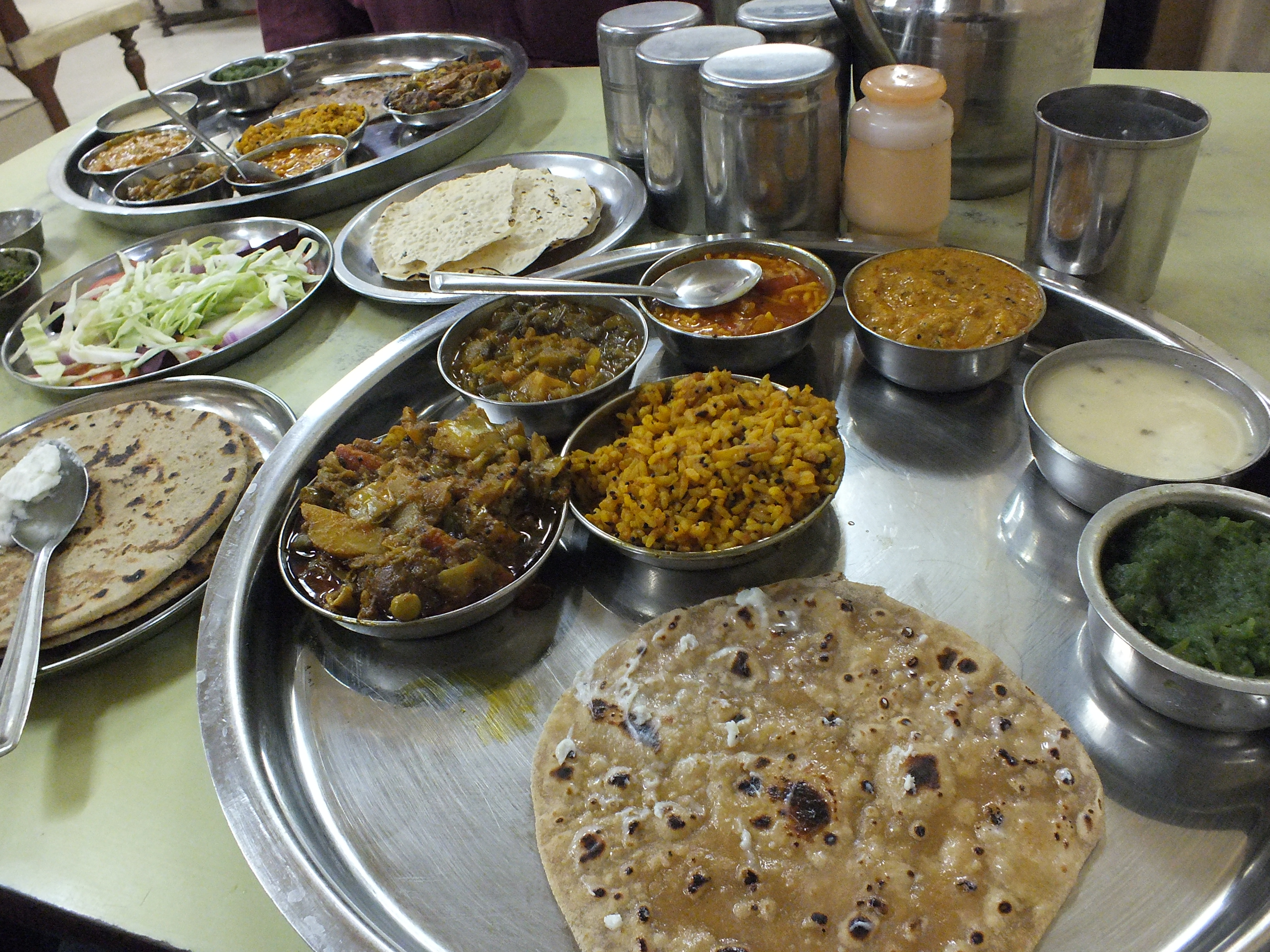 With Sev Tomato, Pulao, Kadhi, and Dudhi Halwa - at Bhuj, Gujarat.